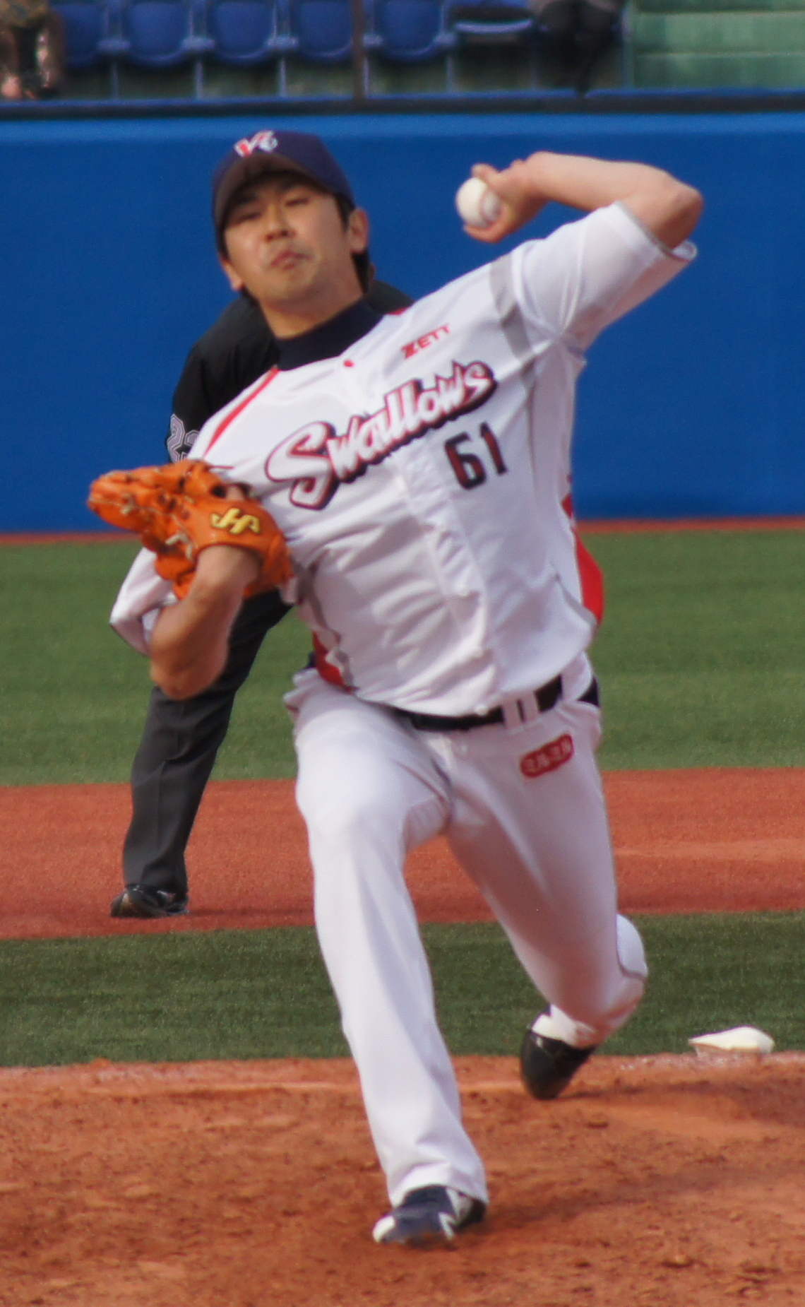 Itsuki Shoda, pitcher of the Tokyo Yakult Swallows, at Meiji Jingu Stadium.